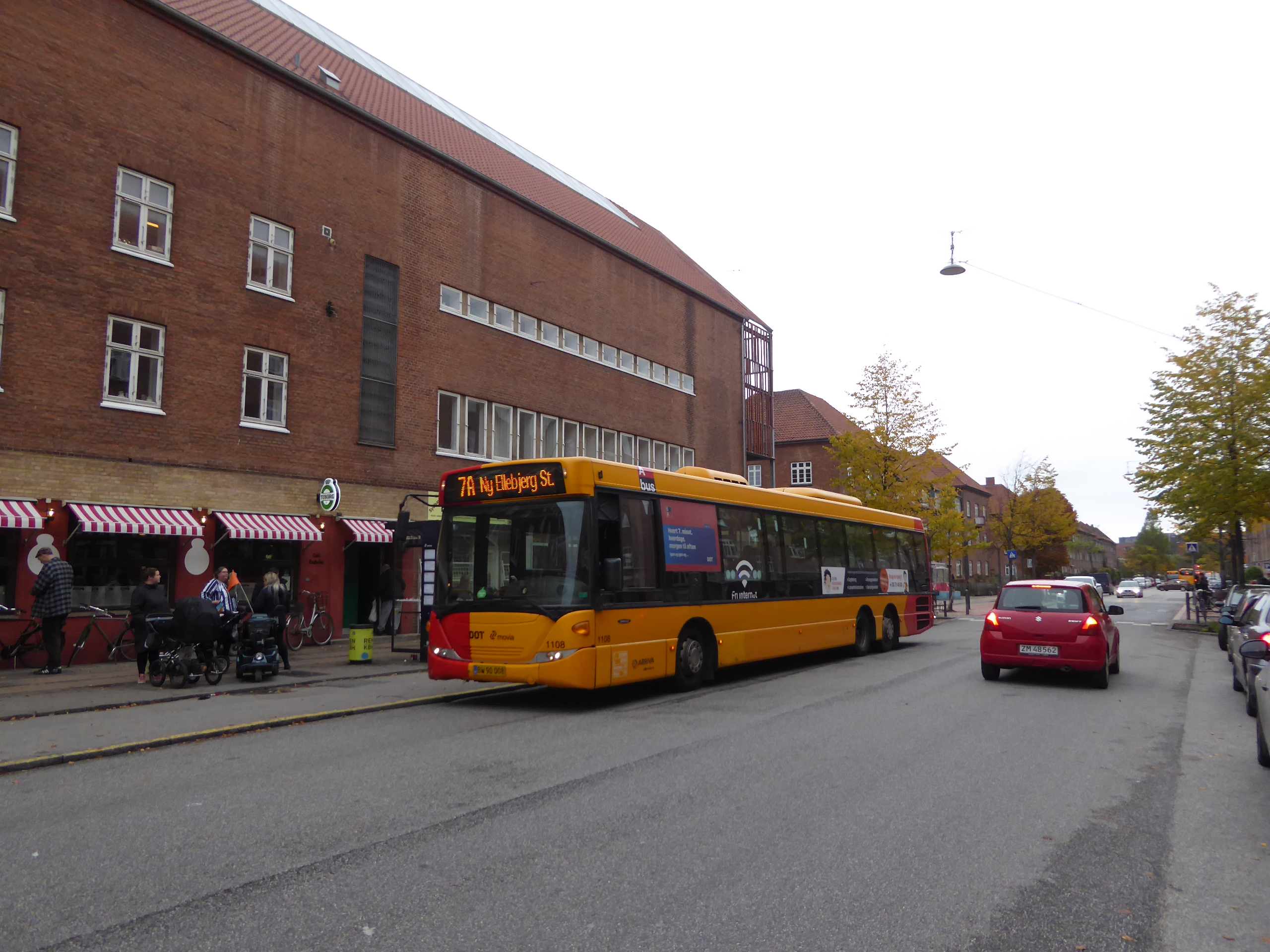 Movia bus line 7A on Borgbjergsvej in Kongens Enghave in Copenhagen. It was the first day of the line.